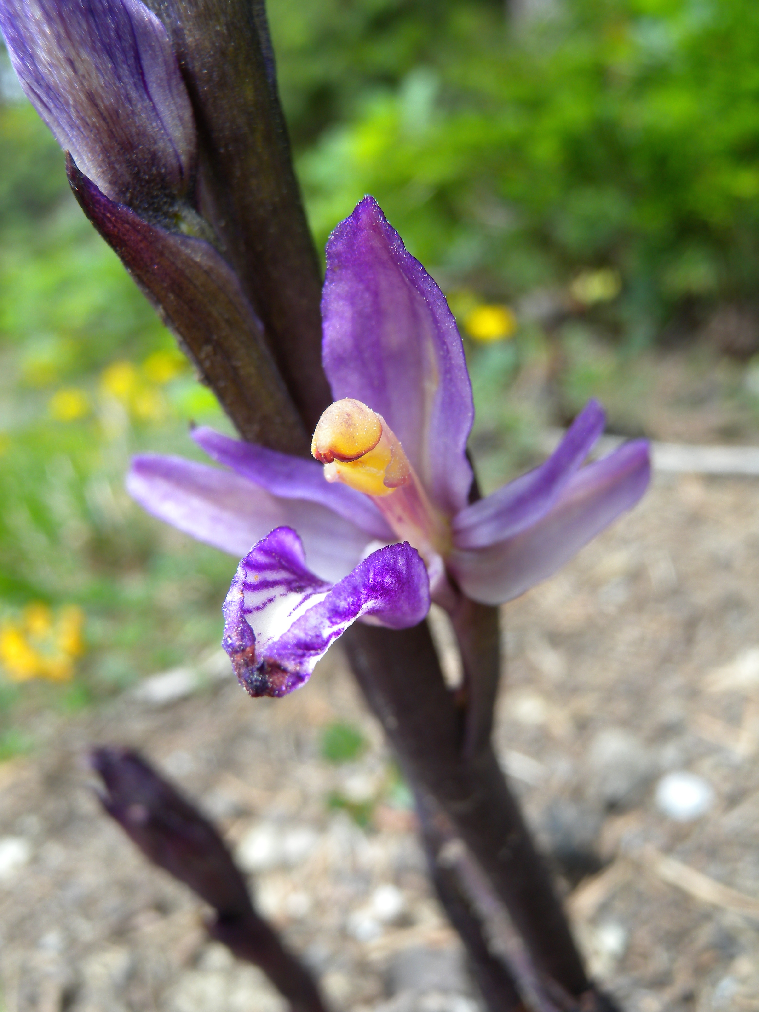 Limodorum abortivum (Orchidaceae); Erschmatt, Canton of Valais, Switzerland